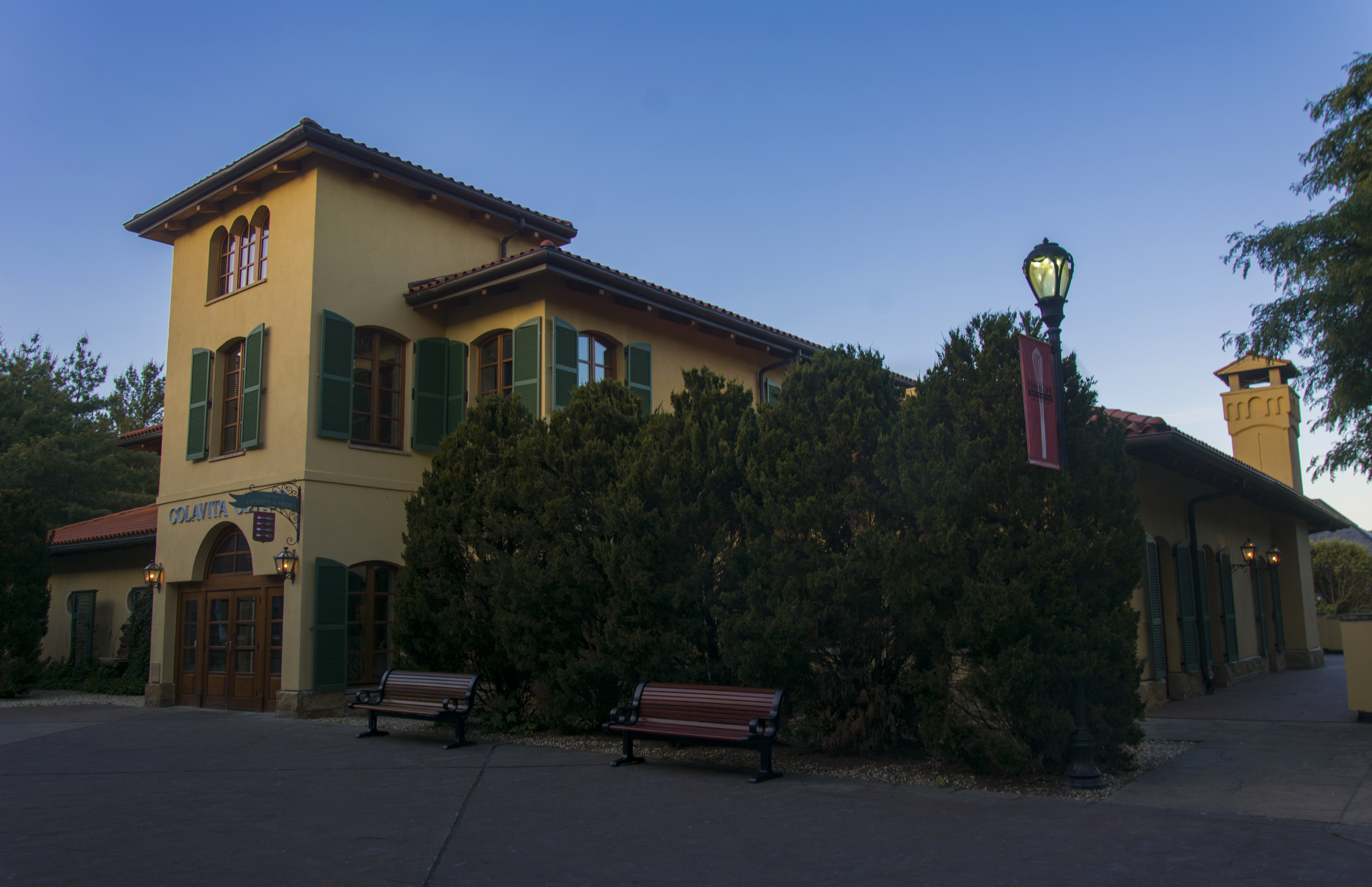 Part of the Culinary Institute of America's Hyde Park campus.